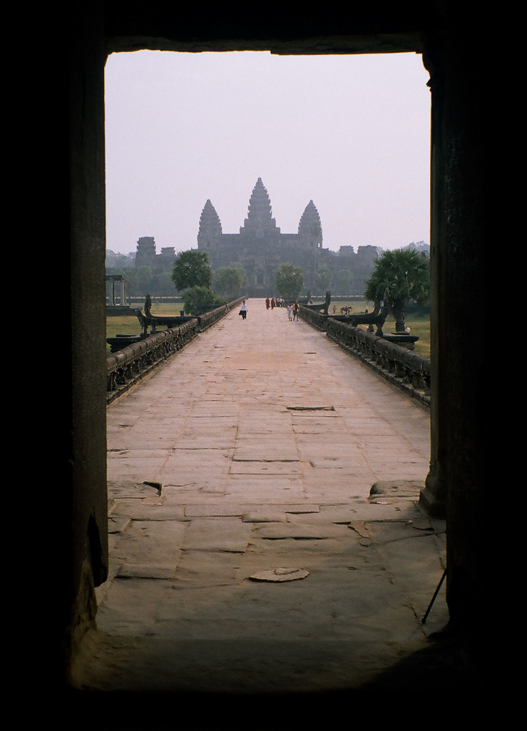 Portal — Going into the temple